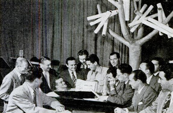 Photo of Perry Como with songwriter's reps, or "song pluggers", at the Chesterfield Supper Club. Como met with the reps every Wednesday after the last broadcast of the show for the West Coast audience.